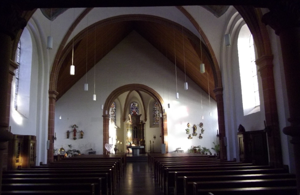 Interior of the church in Kostenbach